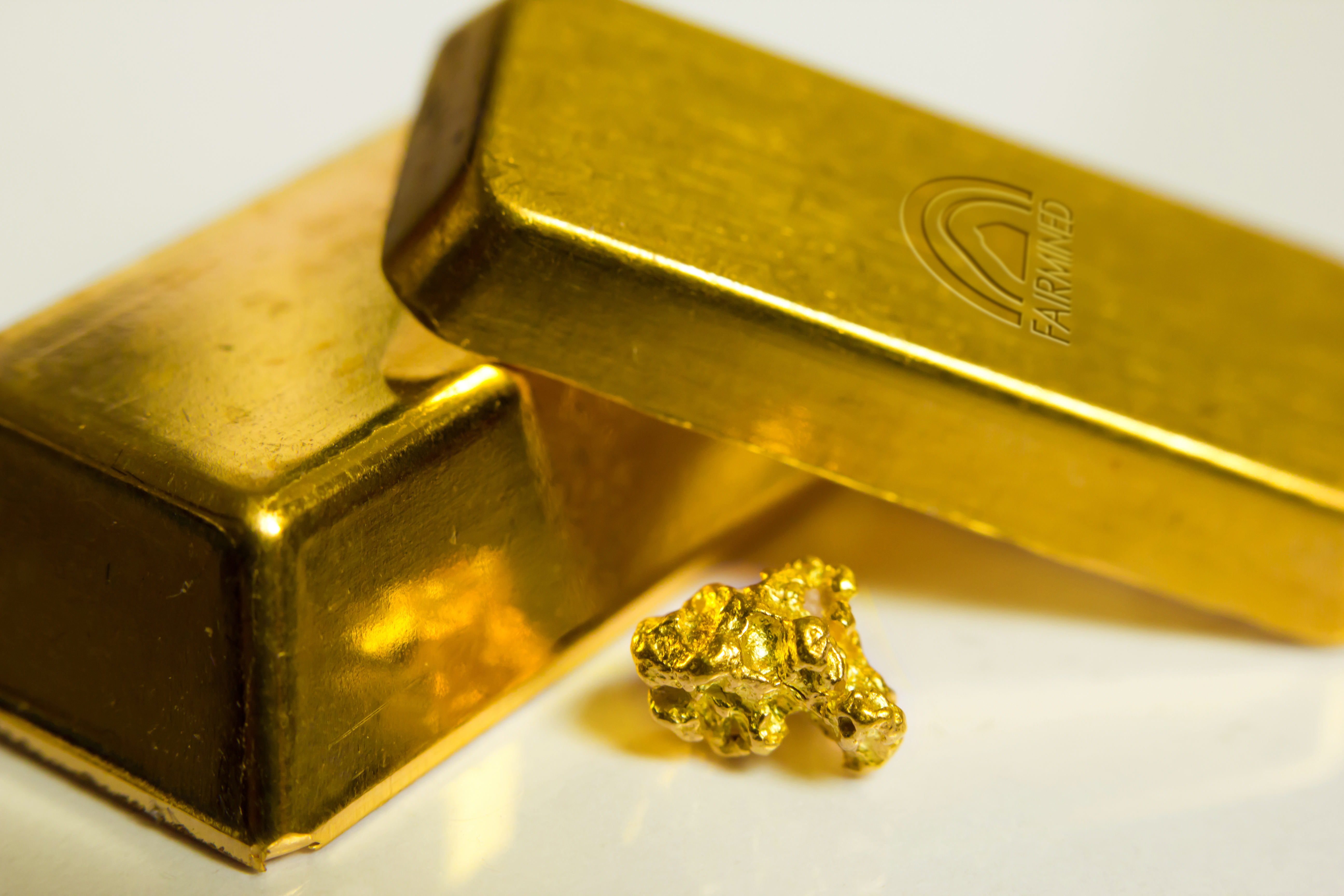 The picture represents two ingots of Fairmined gold and a gold nugget.